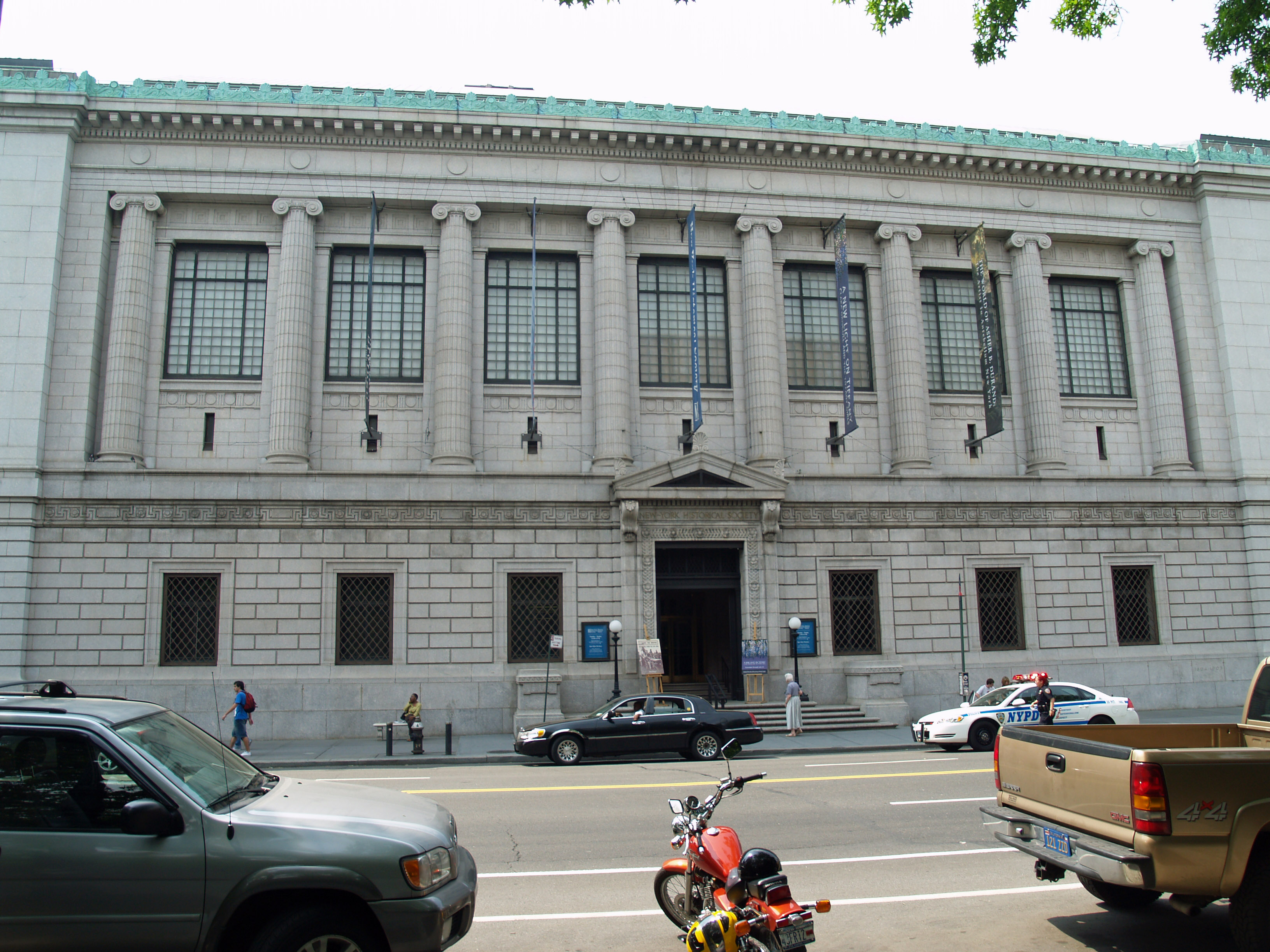 170 Central Park West (New York Historical Society)